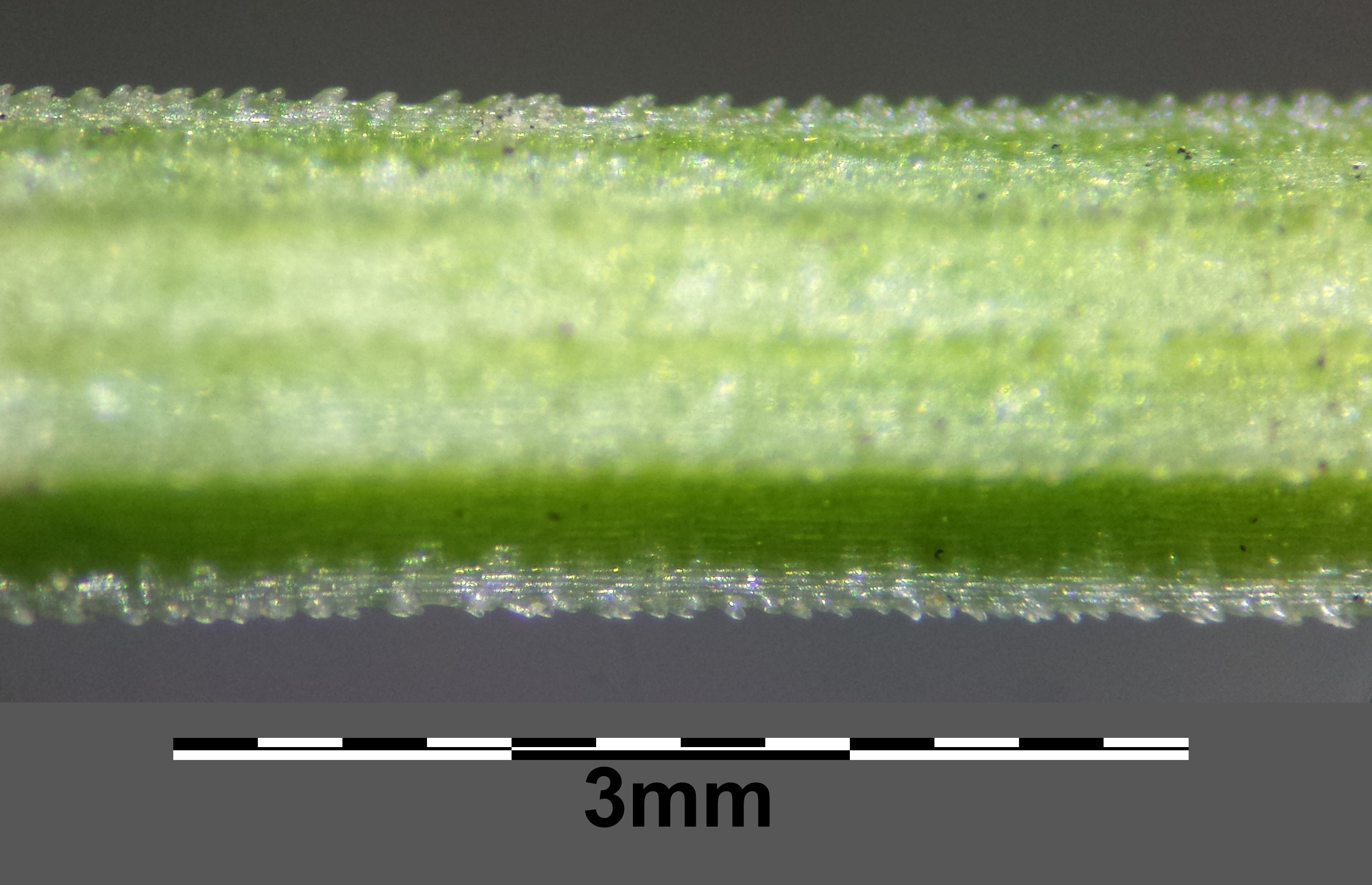 Stipe Taxonym: Fallopia convolvulus ss Fischer et al. EfÖLS 2008 ISBN 978-3-85474-187-9 Location: near Oberrohrbach, district Korneuburg, Lower Austria - ca. 200 m a.s.l. Habitat: fence